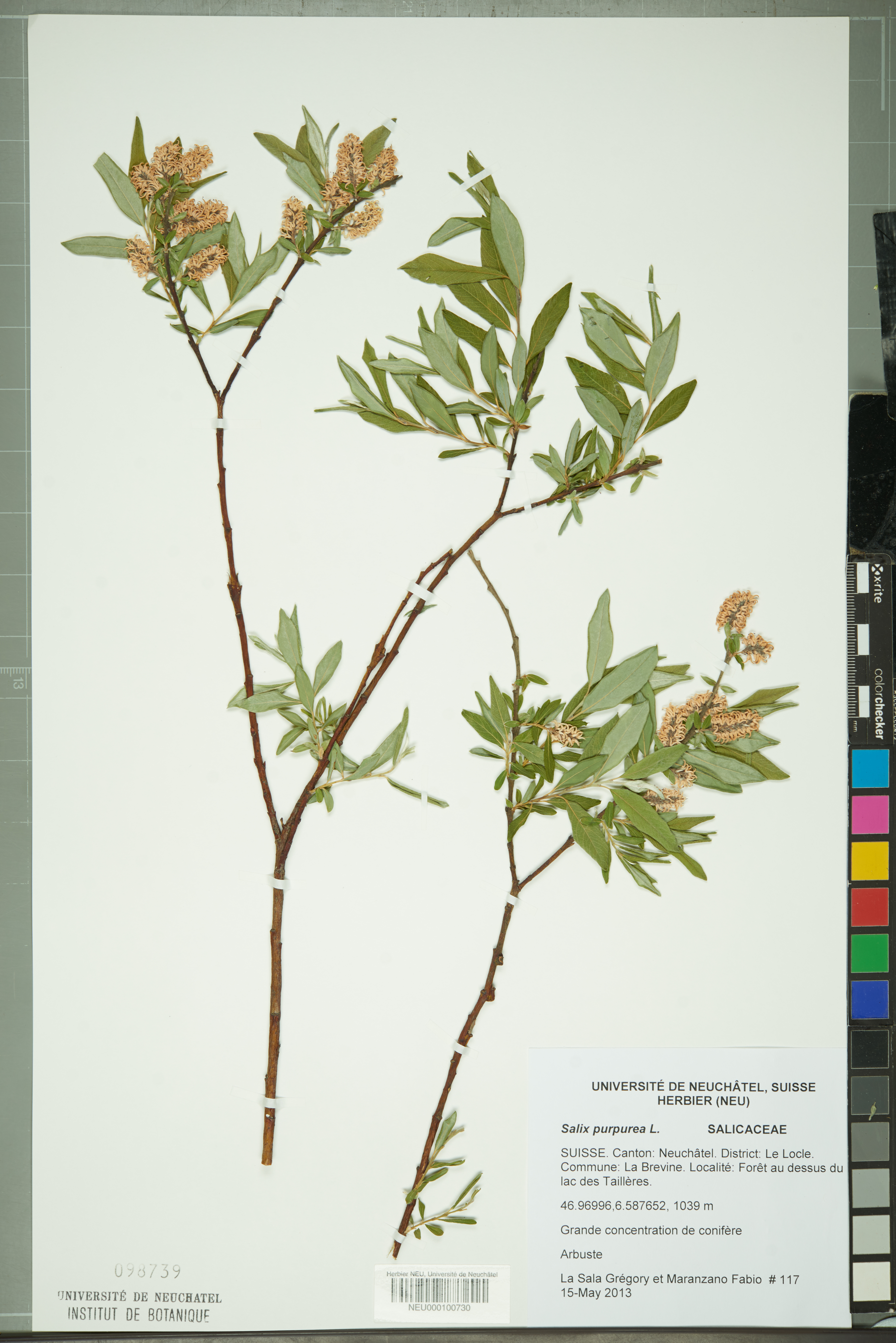 Dried pressed specimen of Salix purpurea